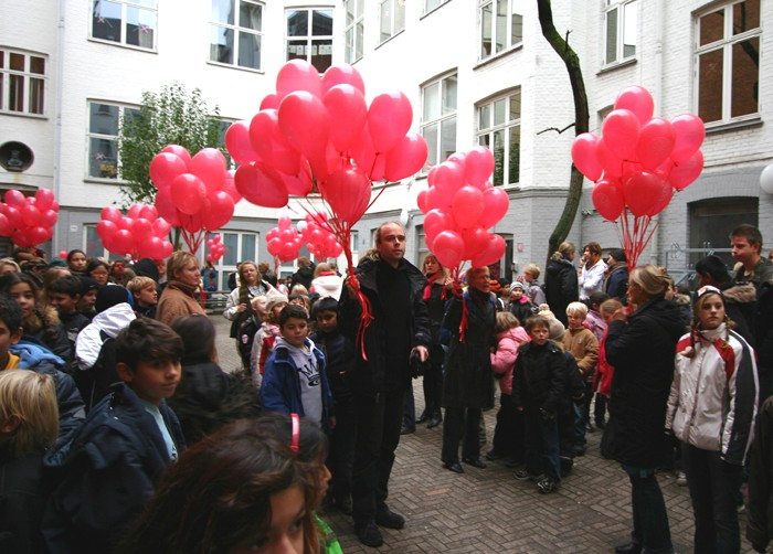 Photo from Sankt Ansgars School 100 year birthday, November 6, 2006.